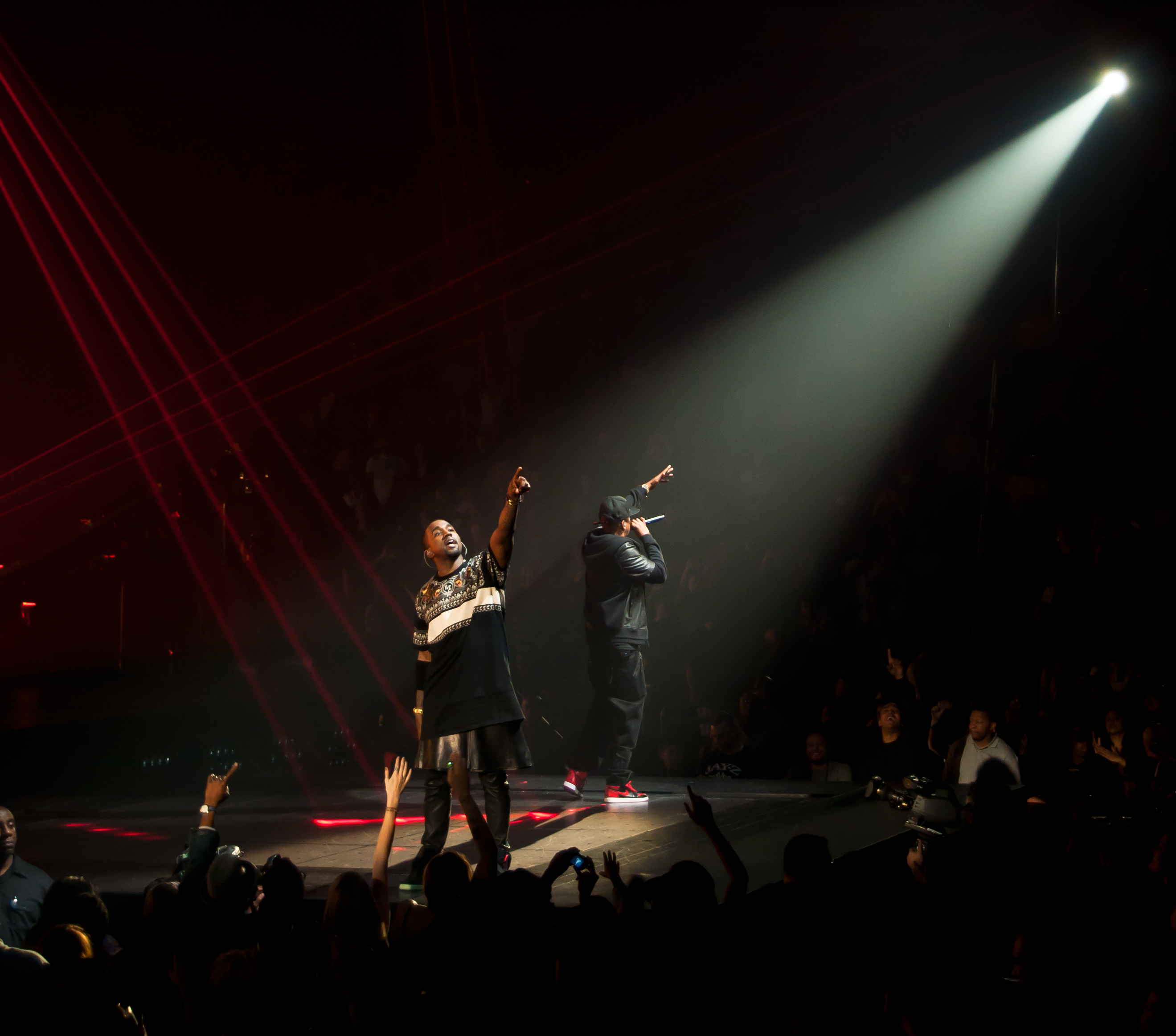 Jay-Z and Kanye West performing at Sprint Center on December 31, 2008 in Kansas City, Missouri.